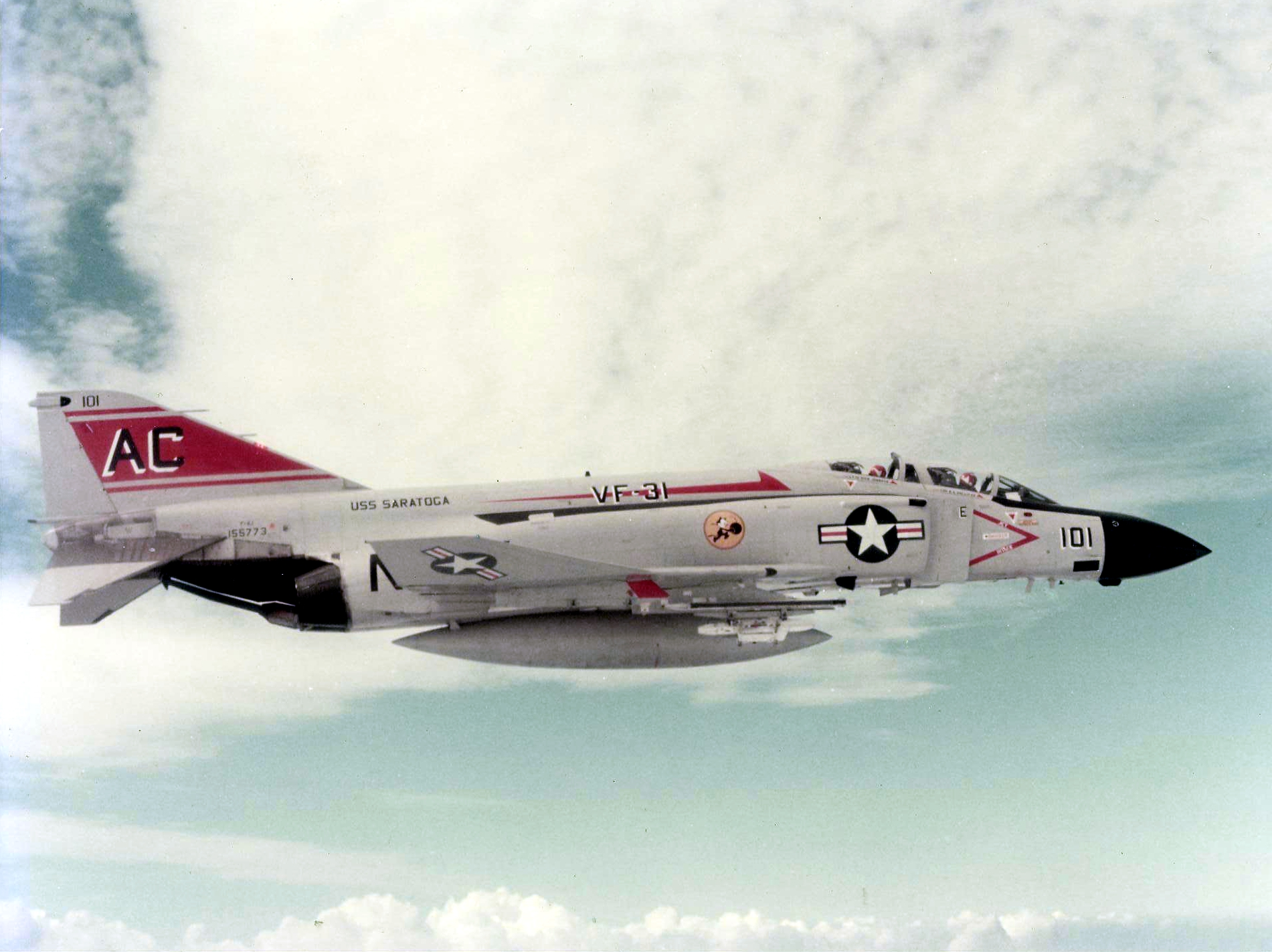 A U.S. Navy McDonnell F-4J-34-MC Phantom II (BuNo 155773) of Fighter Squadron VF-31 "Tomcatters" in flight. VF-31 was assigned to Carrier Air Wing 3 (CVW-3) aboard the aircraft carrier USS Saratoga (CV-60) for a deployment to the Mediterranean Sea from 3 October 1978 to 5 April 1979.